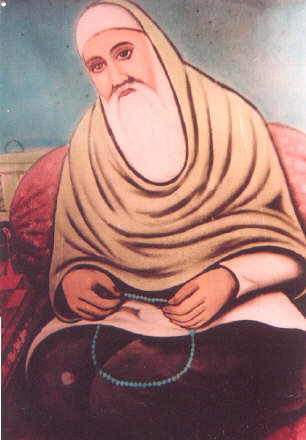 Khawaja Shah Suleman